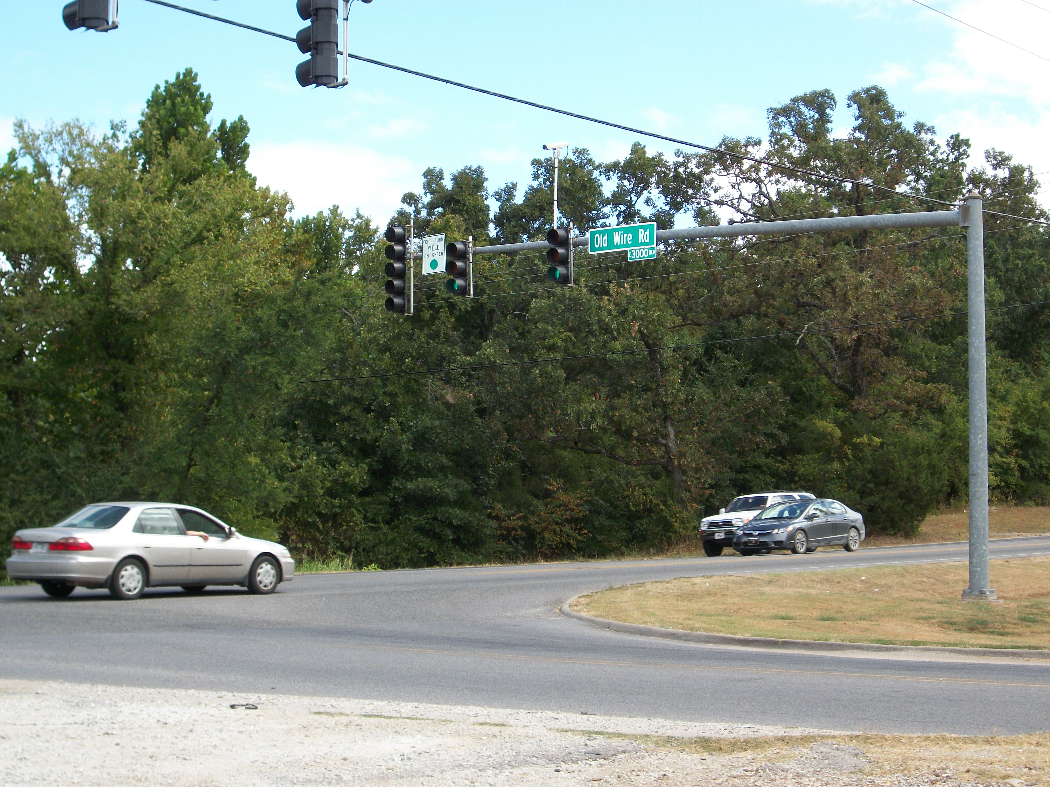 The 3000 block of Old Wire Road in Fayetteville, AR. This road used to be used by the telegraph, before that the Butterfield Stagecoach Route, and before that as a Native American Trail.